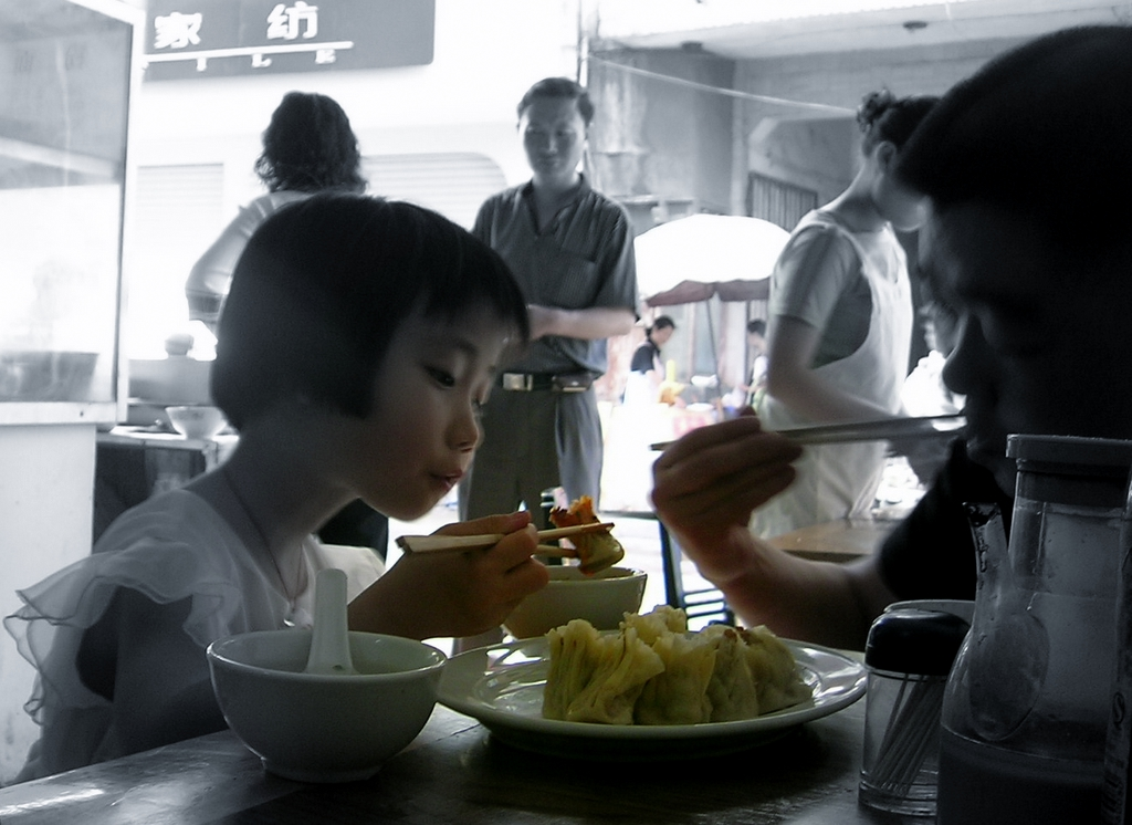 Breakfast in Xingyi, Qianxinan Buyei and Miao Autonomous Prefecture, Guizhou, China